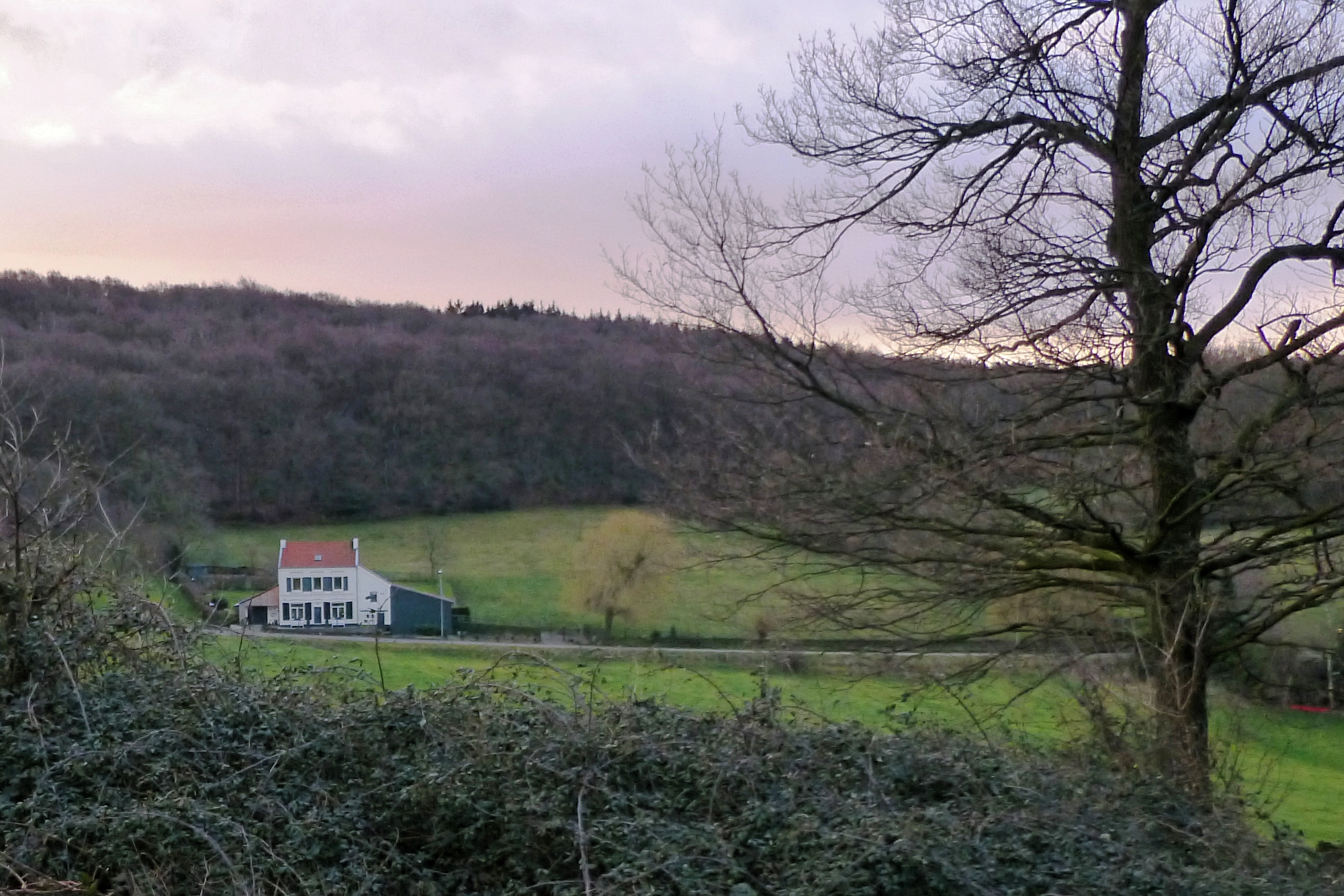 Huis de Wilgen, gezien vanaf het Bokkebosje nabij Vaals.